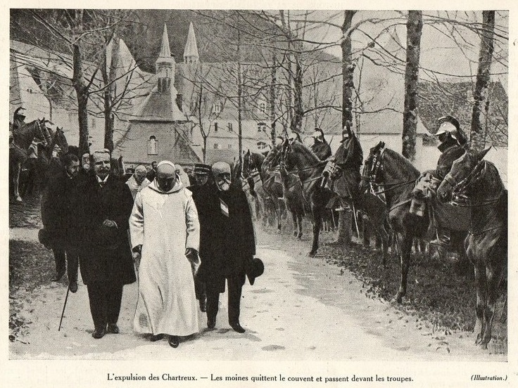 Closure of the Grande Chartreuse monastery and forcible expulsion of the monks in April 1903. Photo published in the French magazine L'Illustration (May 1903)